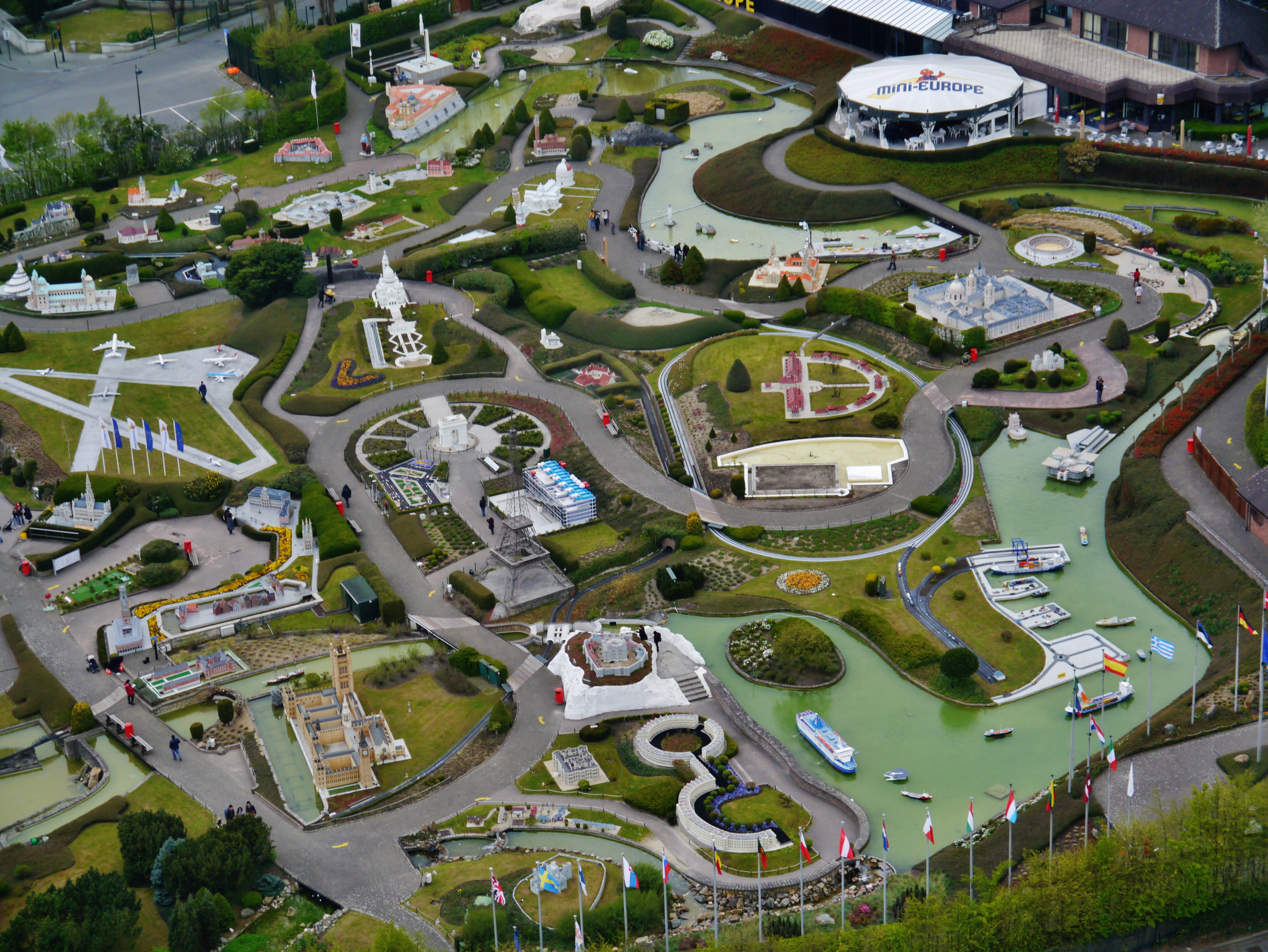 View from the Atomium to Mini Europe, Brussels, District of Laeken, Region of Brussels, Belgium